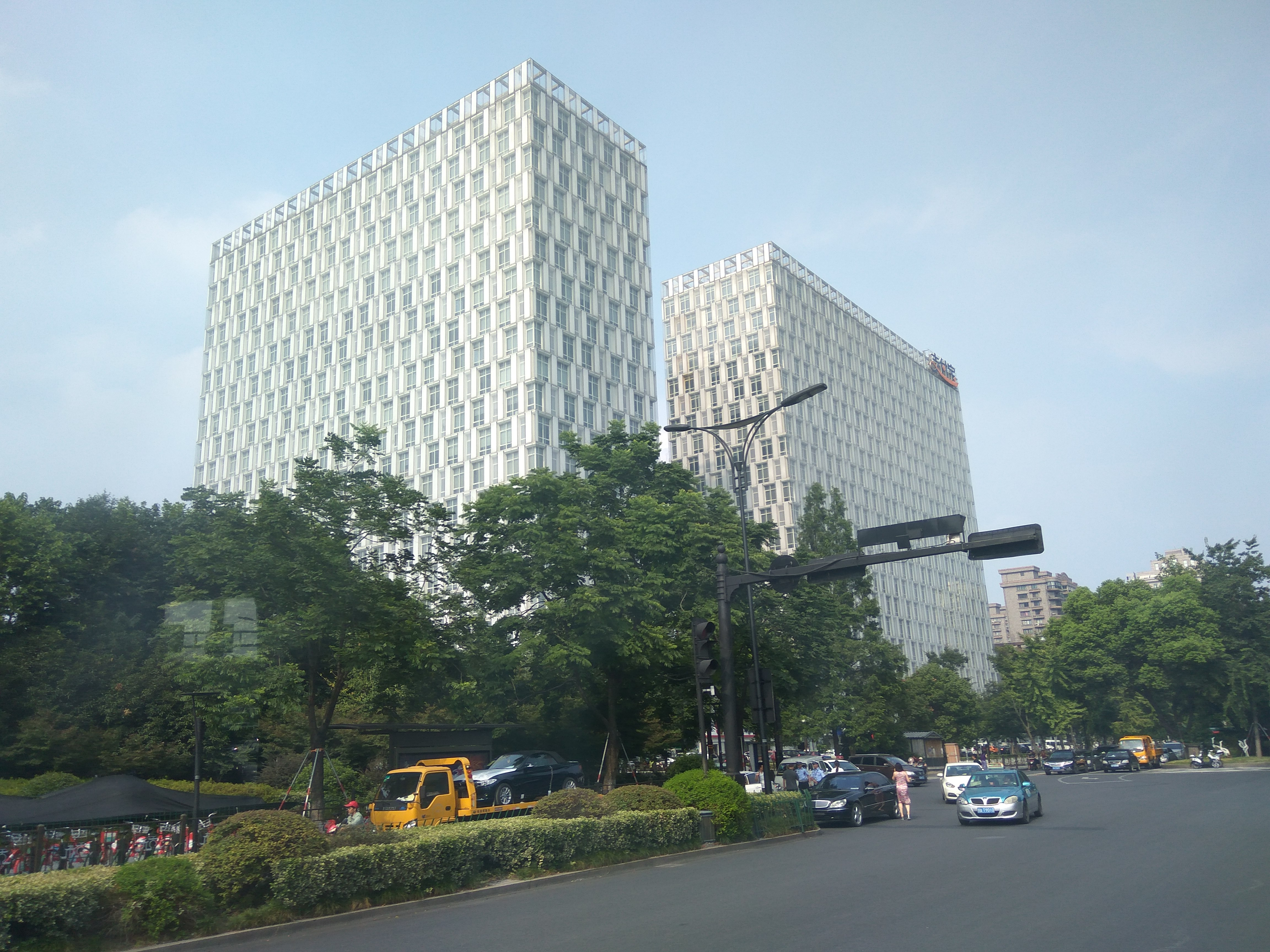 201608 Alipay Mansion in Gudang